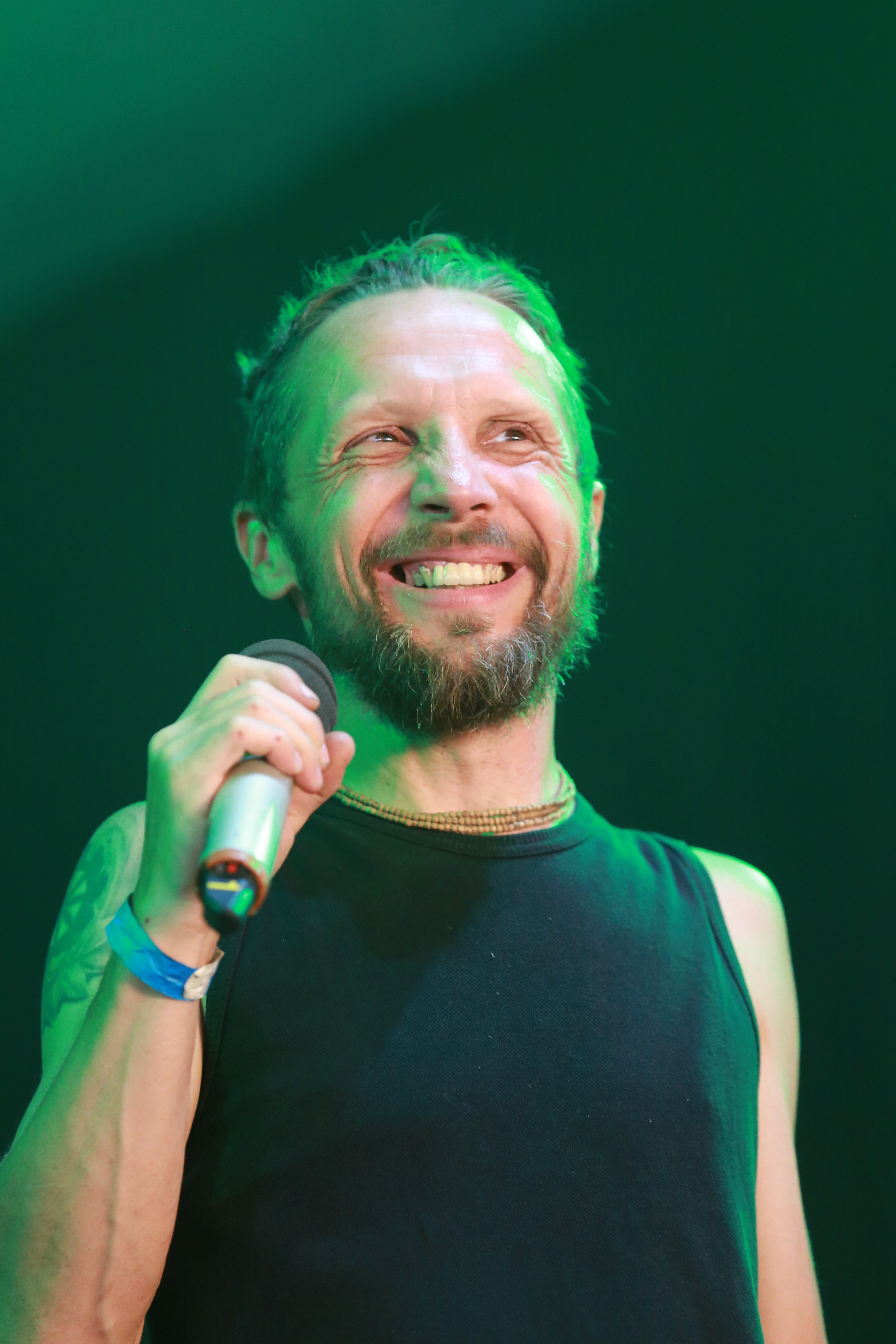 Pol'and'Rock Festival in 2018.